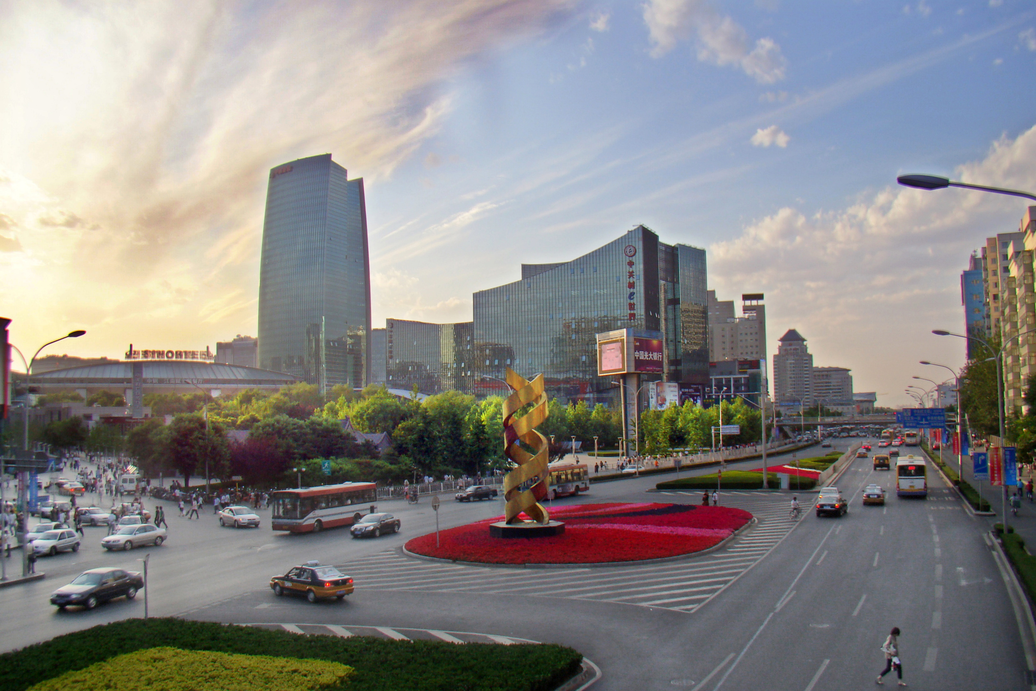 Zhongguancun，Haidian District, Beijing. 中文（中国大陆）: 北京中关村广场及街道，傍晚